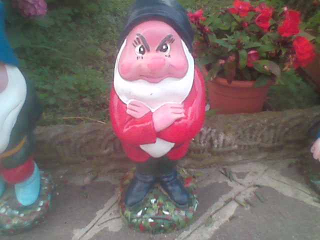 a garden gnome in italy